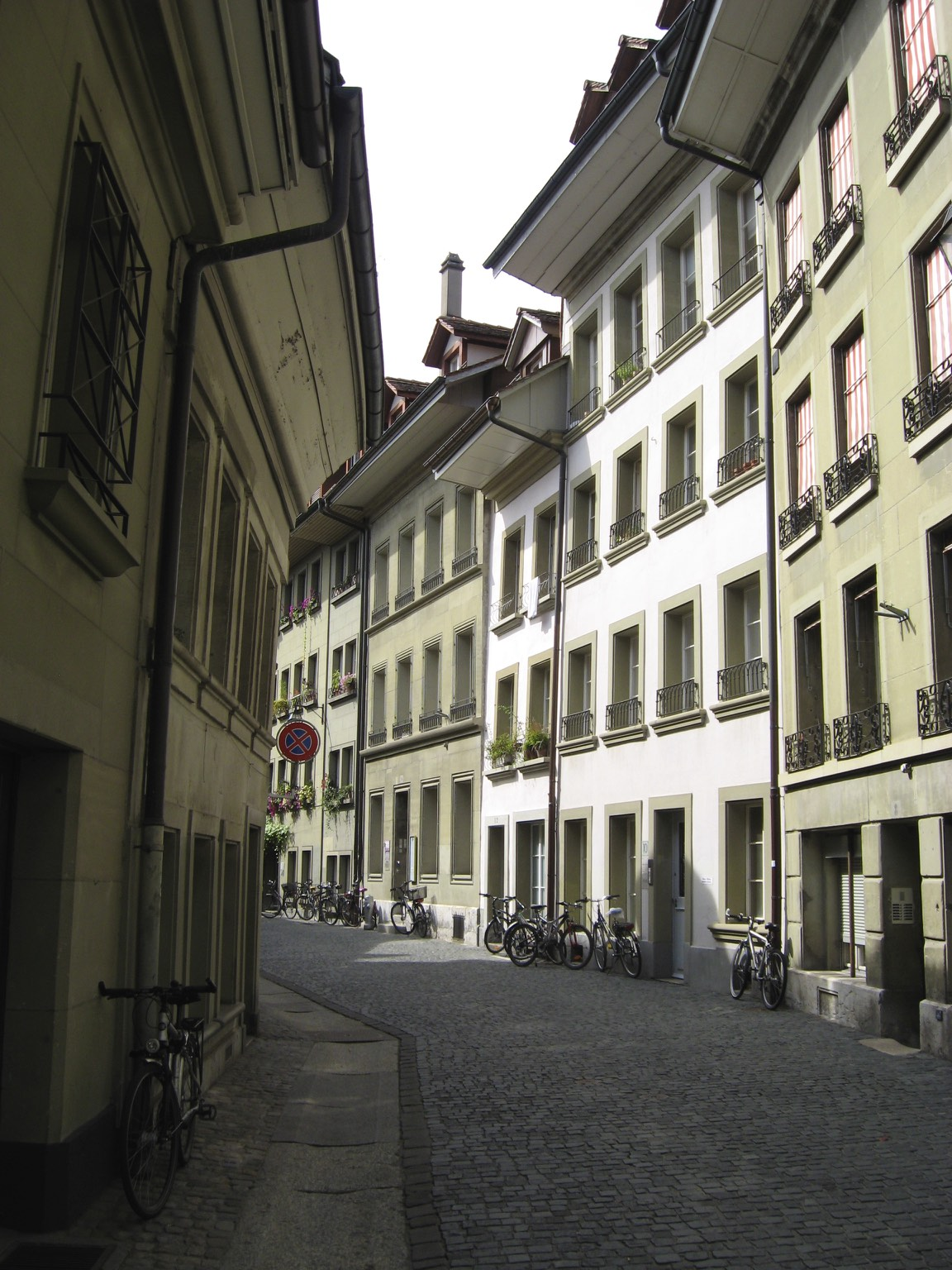 Brunngasse in Bern, Switzerland